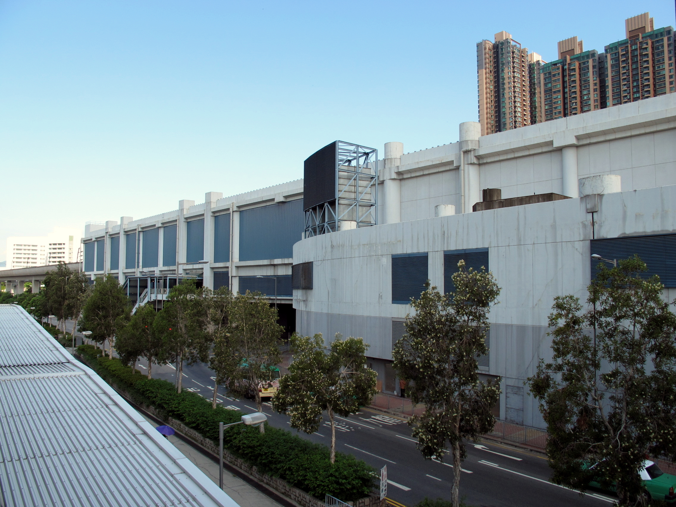 Yuen Long Station Structure